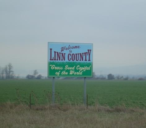 The welcome sign to Linn County, Oregon.